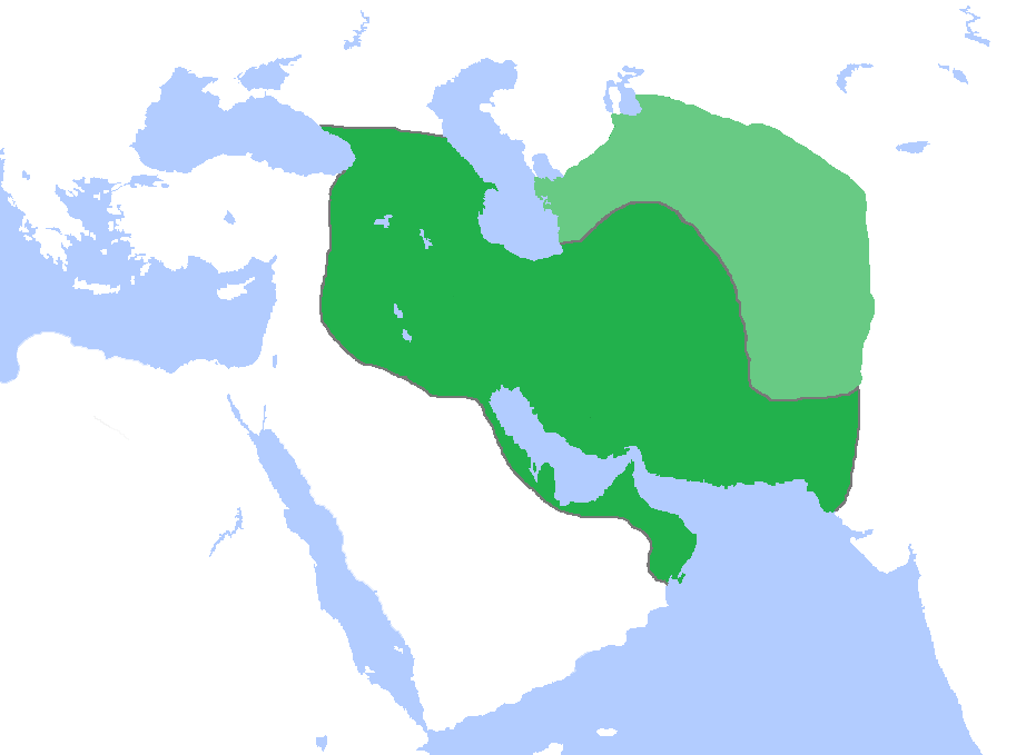 Map of the border of the Sassanid Empire (dark green) after the Persian losses to the Hephthalite Empire (lite green).